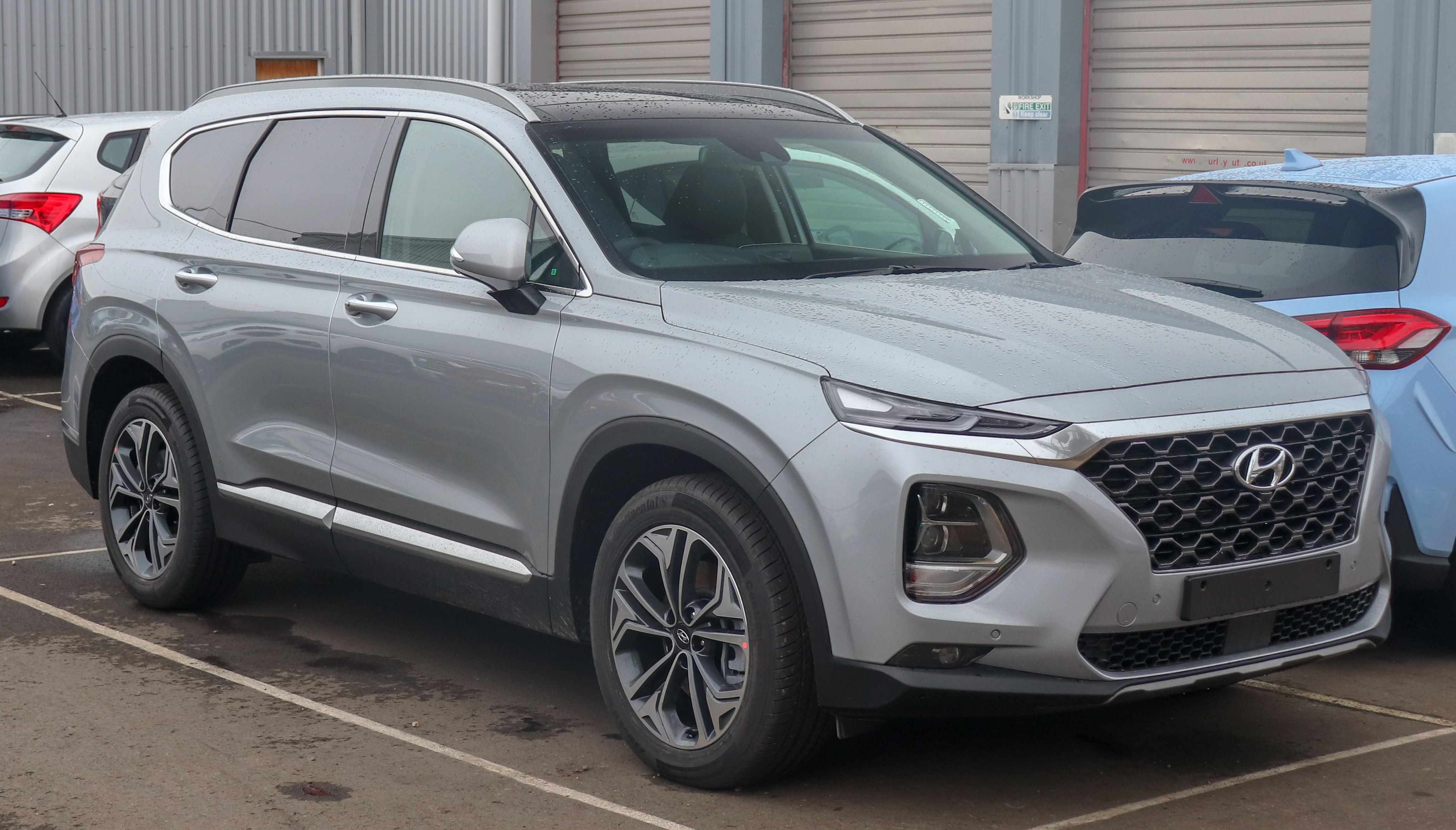 2019 Hyundai Santa Fe HTRAC Front Taken in Stratford-upon-Avon